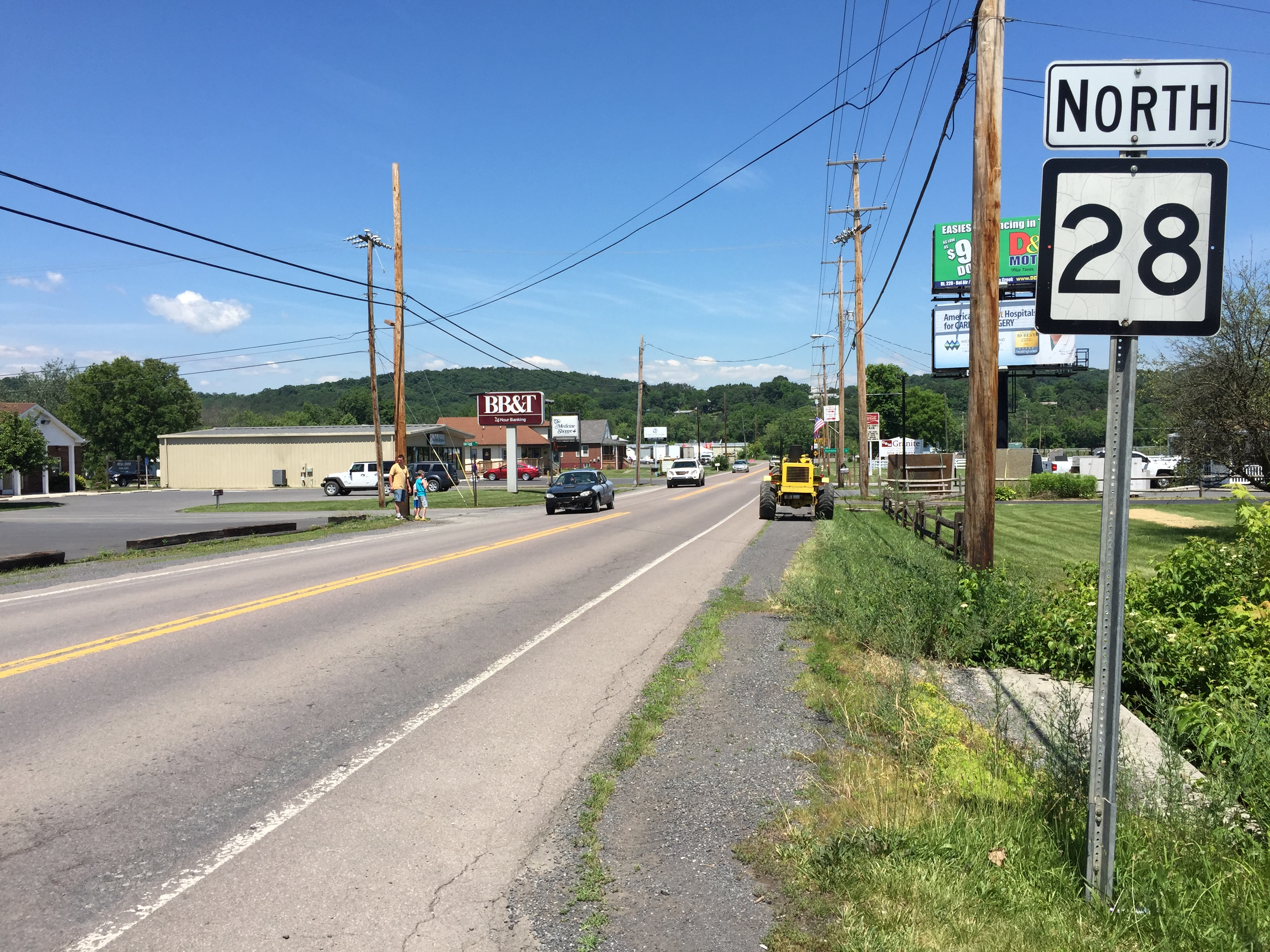 View north along West Virginia State Route 28 (Washington Street) near Carol Line in Fort Ashby, Mineral County, West Virginia